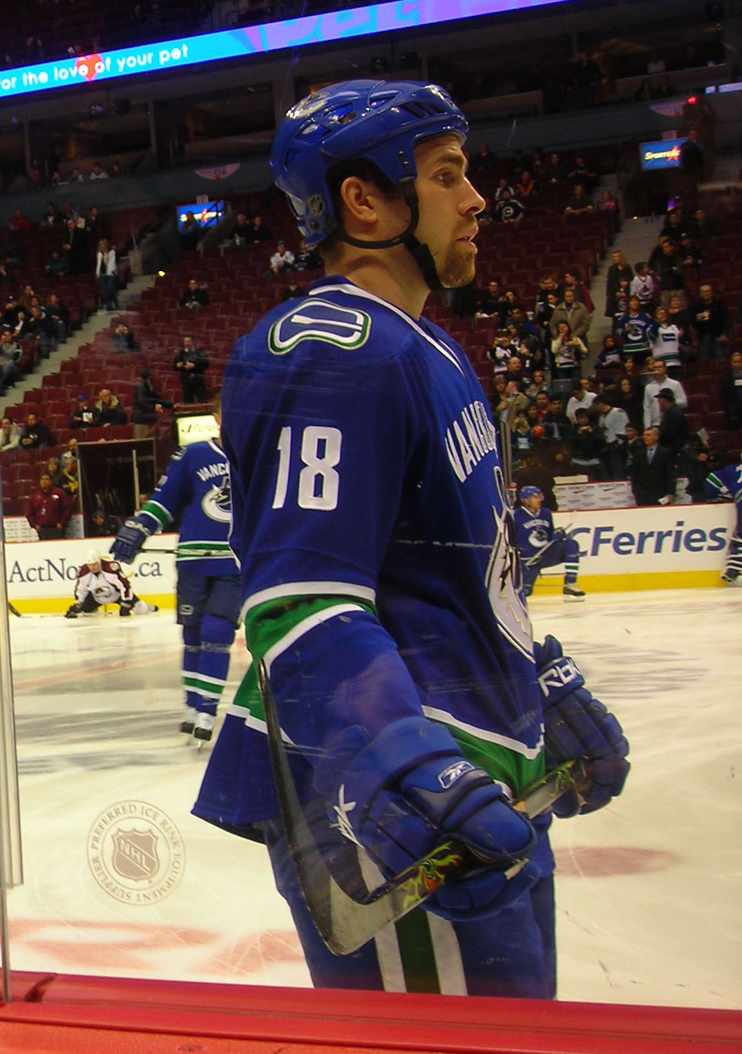 NHL defenseman Mike Weaver during a pre-game warm-up.